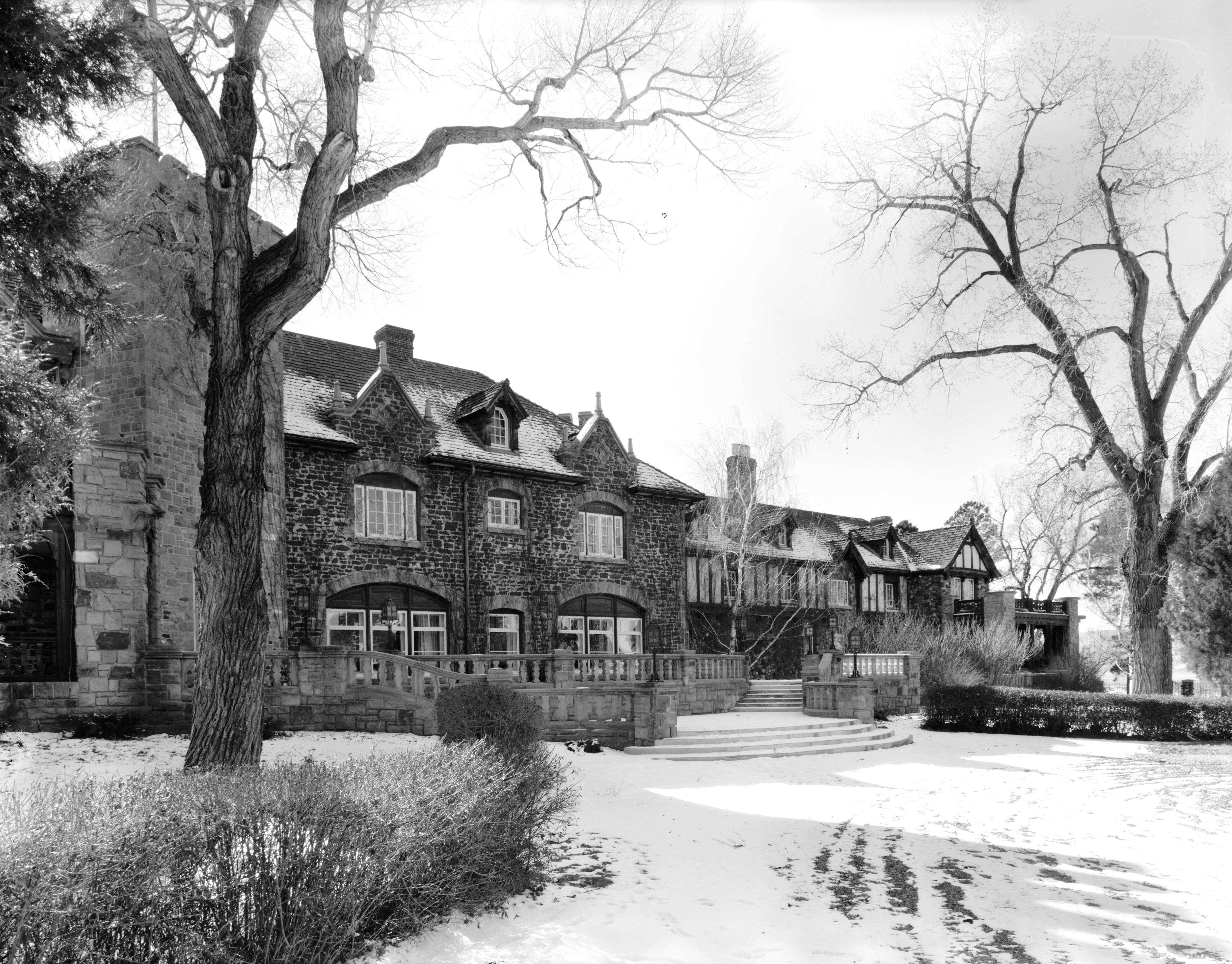 Highlands Ranch, located near Sedalia, Colorado, USA.